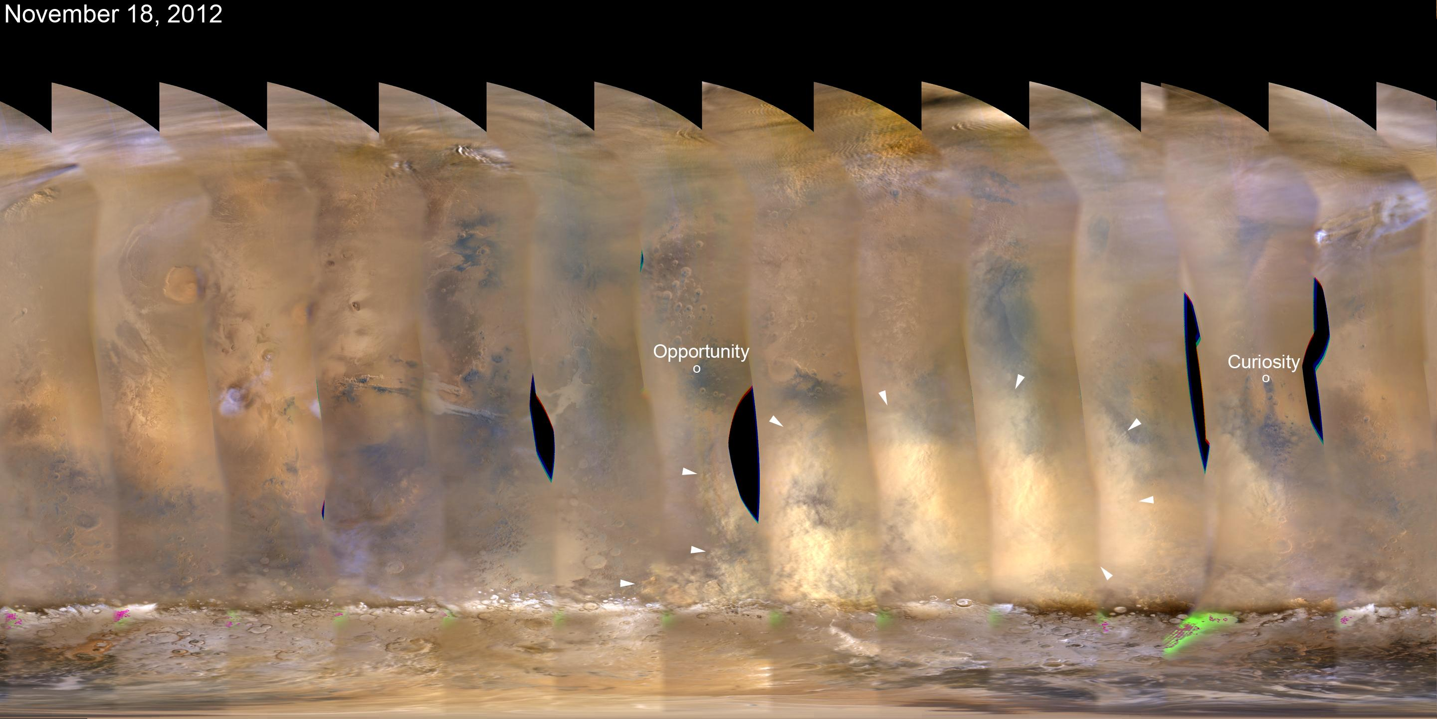 This nearly global mosaic of observations made by the Mars Color Imager on NASA's Mars Reconnaissance Orbiter on Nov. 18, 2012, shows a dust storm in Mars' southern hemisphere. Small white arrows outline the area where dust from the storm is apparent in the atmosphere. Locations of NASA's Mars rovers Opportunity and Curiosity are labeled. Black areas in the mosaic are the result of data drops or high angle roll maneuvers by the orbiter that limit the camera's view of the planet. Equally-spaced blurry areas that run from south-to-north (bottom-to-top) result from the high off-nadir viewing geometry, a product of the spacecraft's low-orbit. Malin Space Science Systems, San Diego, provided and operates the Mars Color Imager. NASA's Jet Propulsion Laboratory, a division of the California Institute of Technology in Pasadena, manages the Mars Reconnaissance Orbiter for NASA's Science Mission Directorate, Washington. Lockheed Martin Space Systems, Denver, is the prime contractor for the project and built the spacecraft.